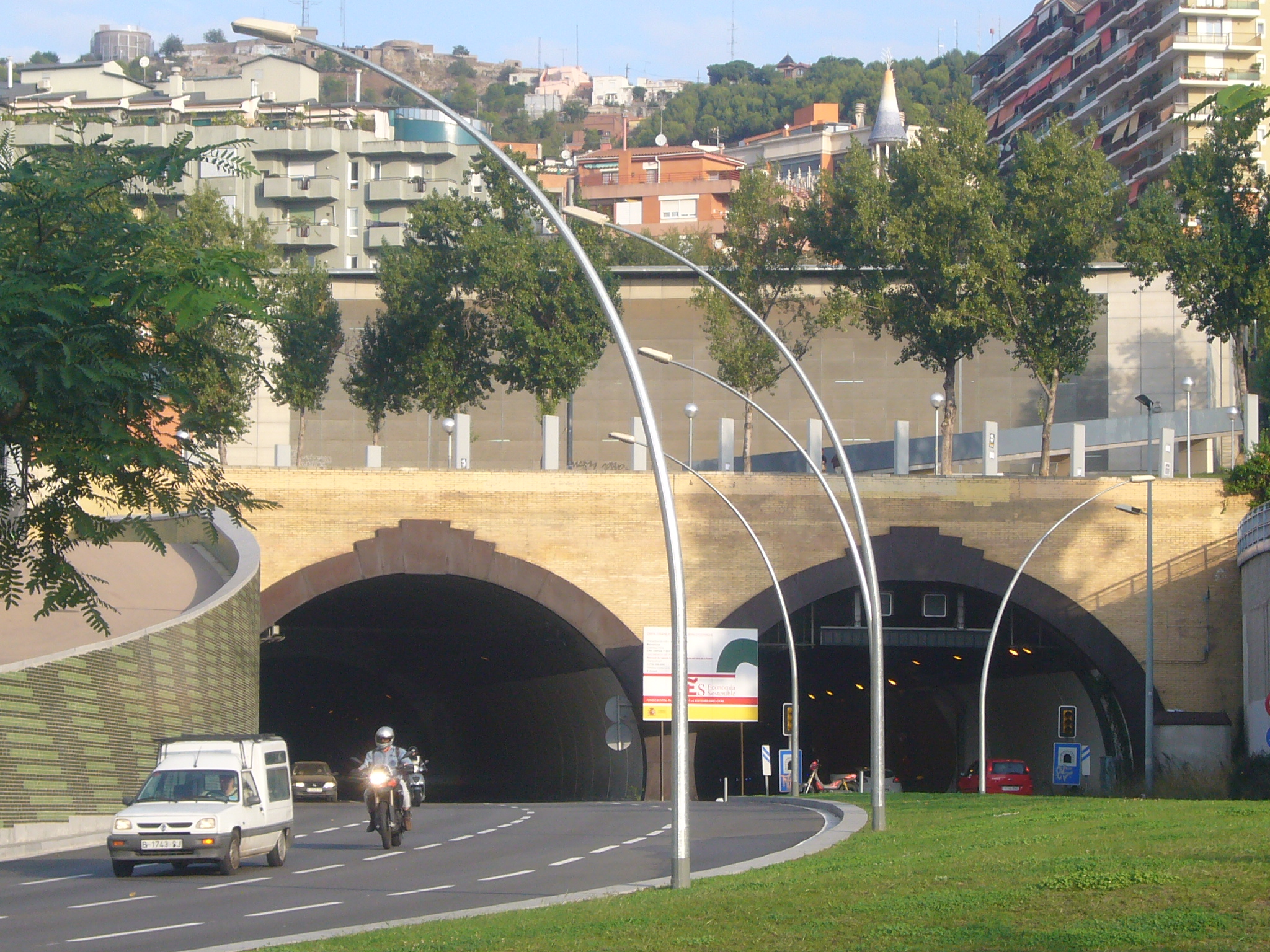 South end of the road tunnel of La Rovira, in Barcelona